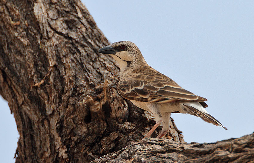 A Donaldson-Smith's Sparrow-weaver in Samburu National Reserve, Kenya.